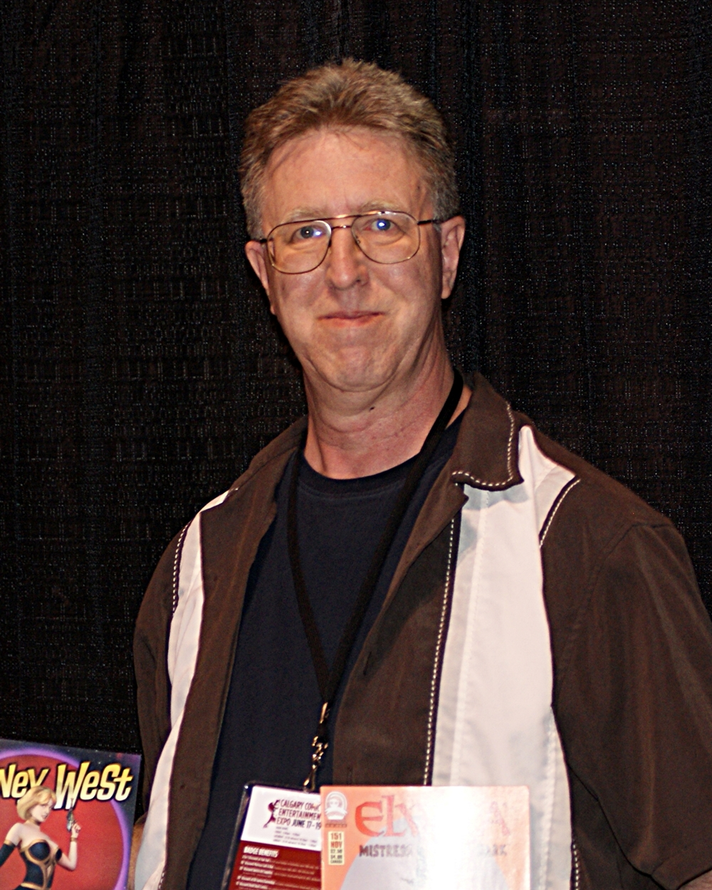 Ronn Sutton is a professional freelance comic book artist and illustrator. Known for his pencilling stories for the Elvira, Mistress of the Dark comic book (Claypool Comics), he currently provides courtroom drawings for the Ottawa Citizen. Photo was taken at the Calgary Comic & Entertainment Expo (BMO Centre, Calgary, Alberta, Canada).